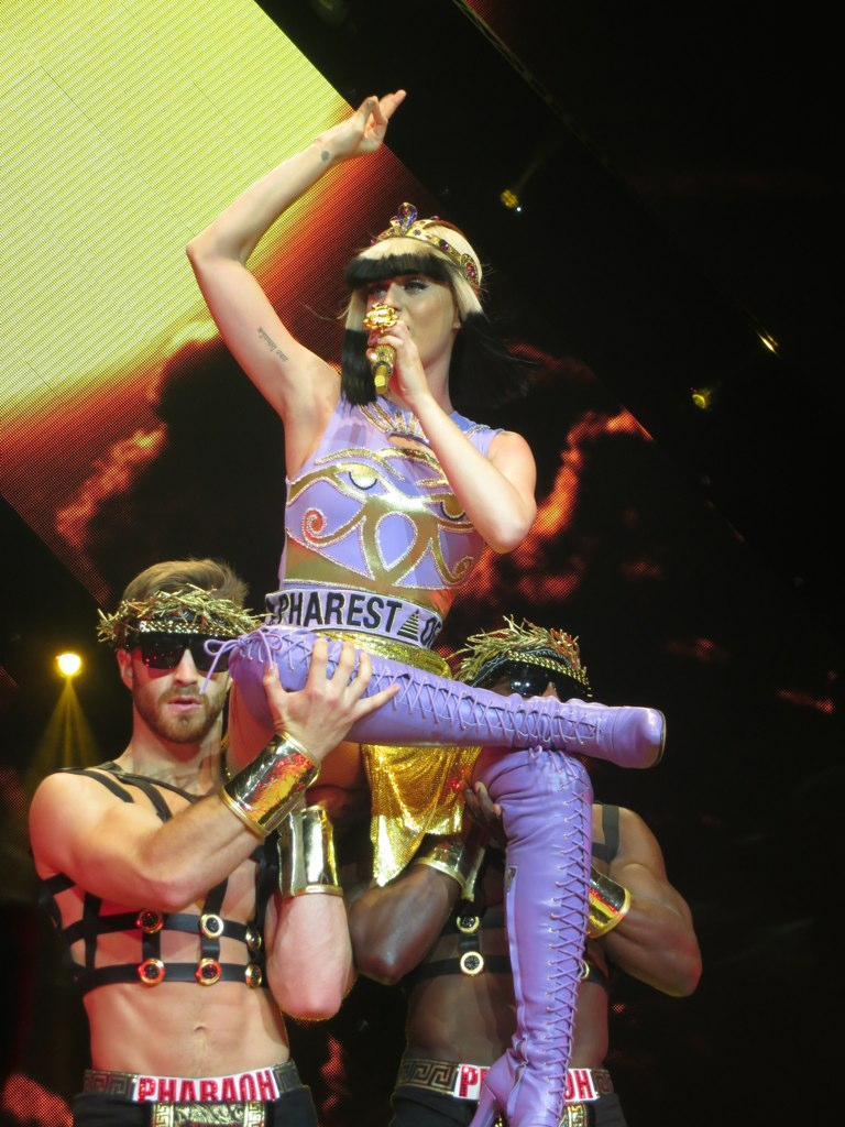 Katy Perry performing "Dark Horse", The Prismatic World Tour, Glasgow SSE Hydro 17 May 2014